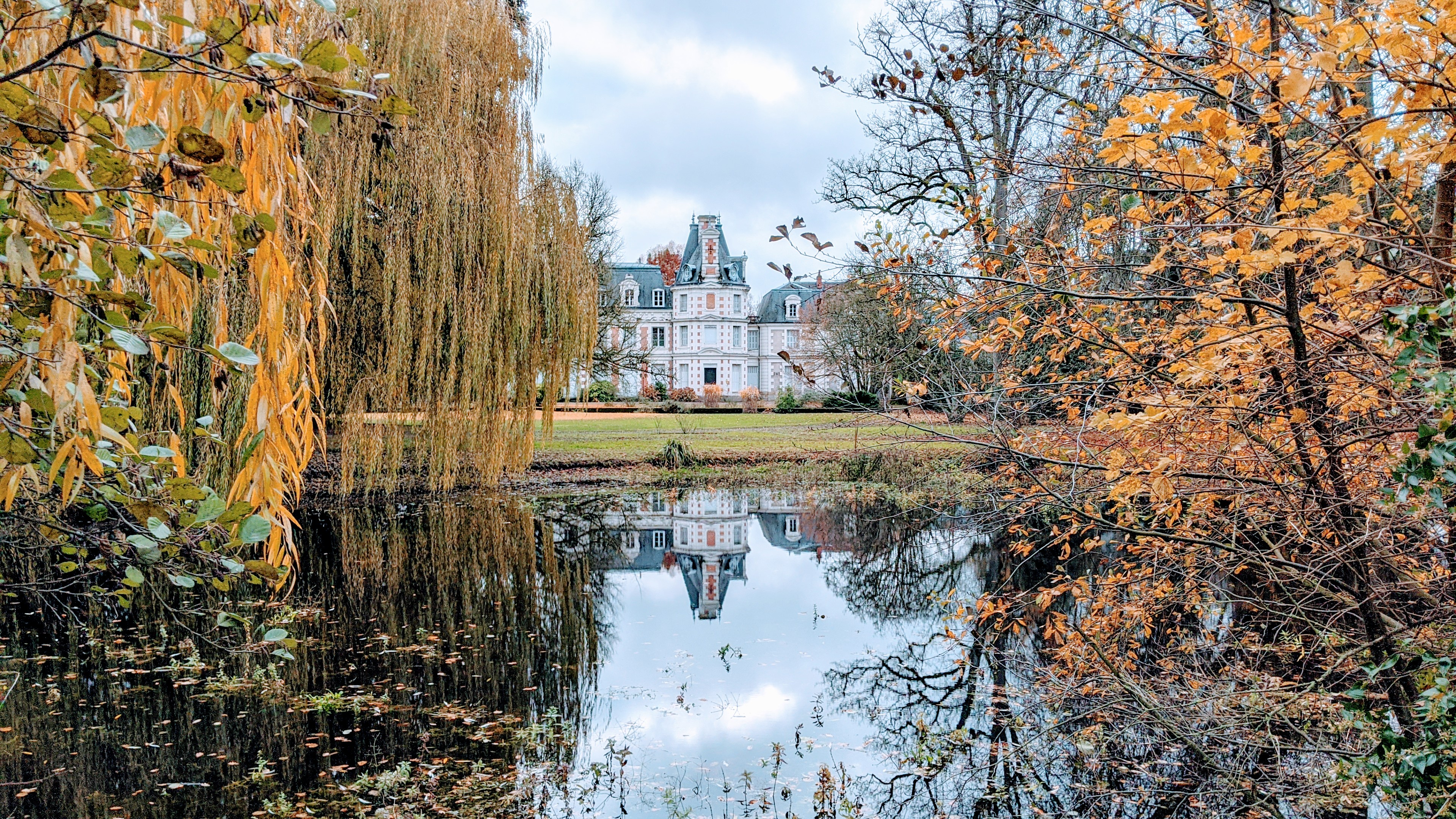 Château d'Armaillé (Lake Belle (North) Aspect)